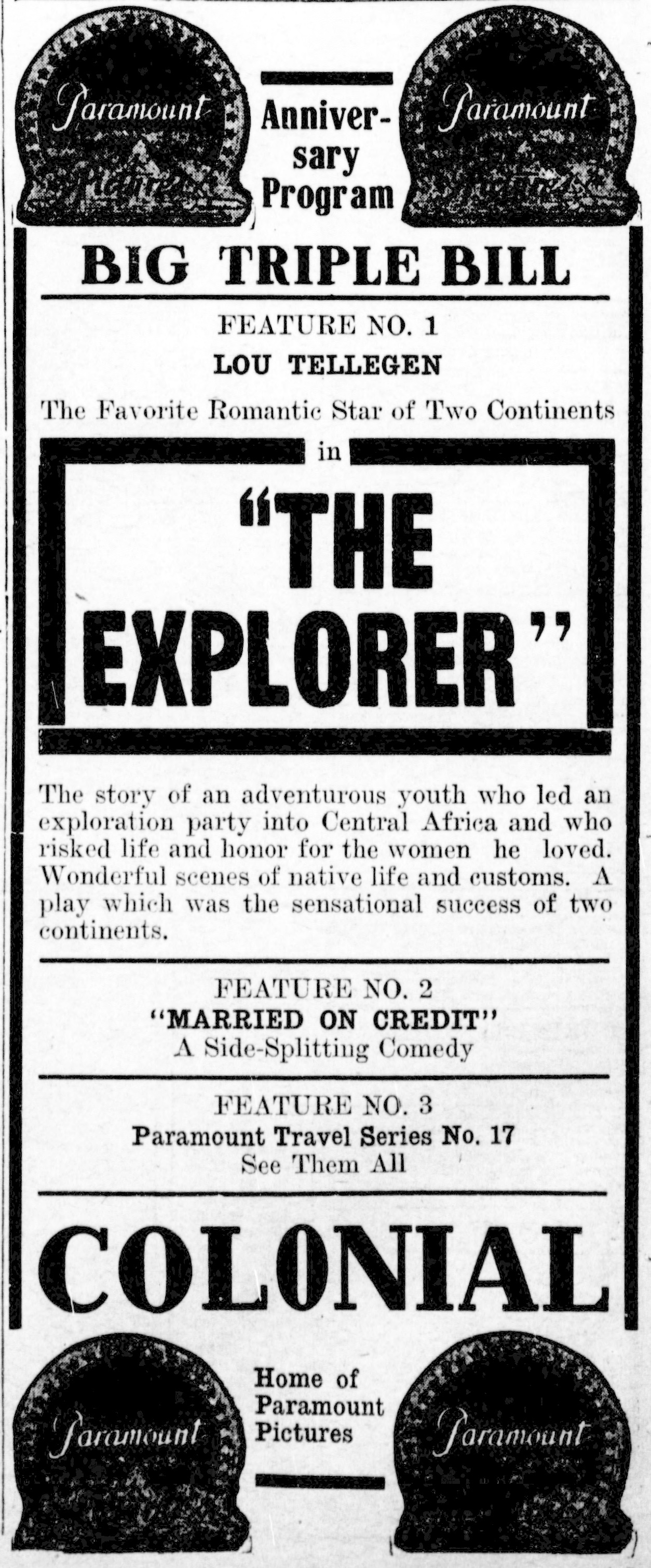 The Explorer is a 1915 American adventure silent film directed by George Melford and written by W. Somerset Maugham and William C. deMille. This is a newspaper advertisement for the film.